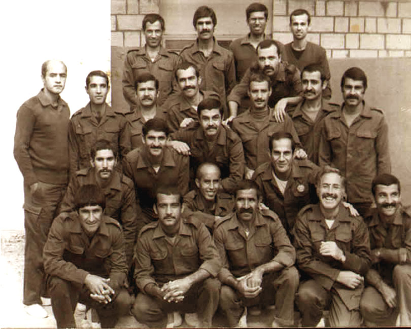 These photograph was taken in 1984 by the Iraqis at Salahedin camp, near Takrit, Iraq, in response to the visit of the International Red Cross who were viewing the state of Iranian Prisoners held by the Iraqis. Most of the above are members of the Air Force.